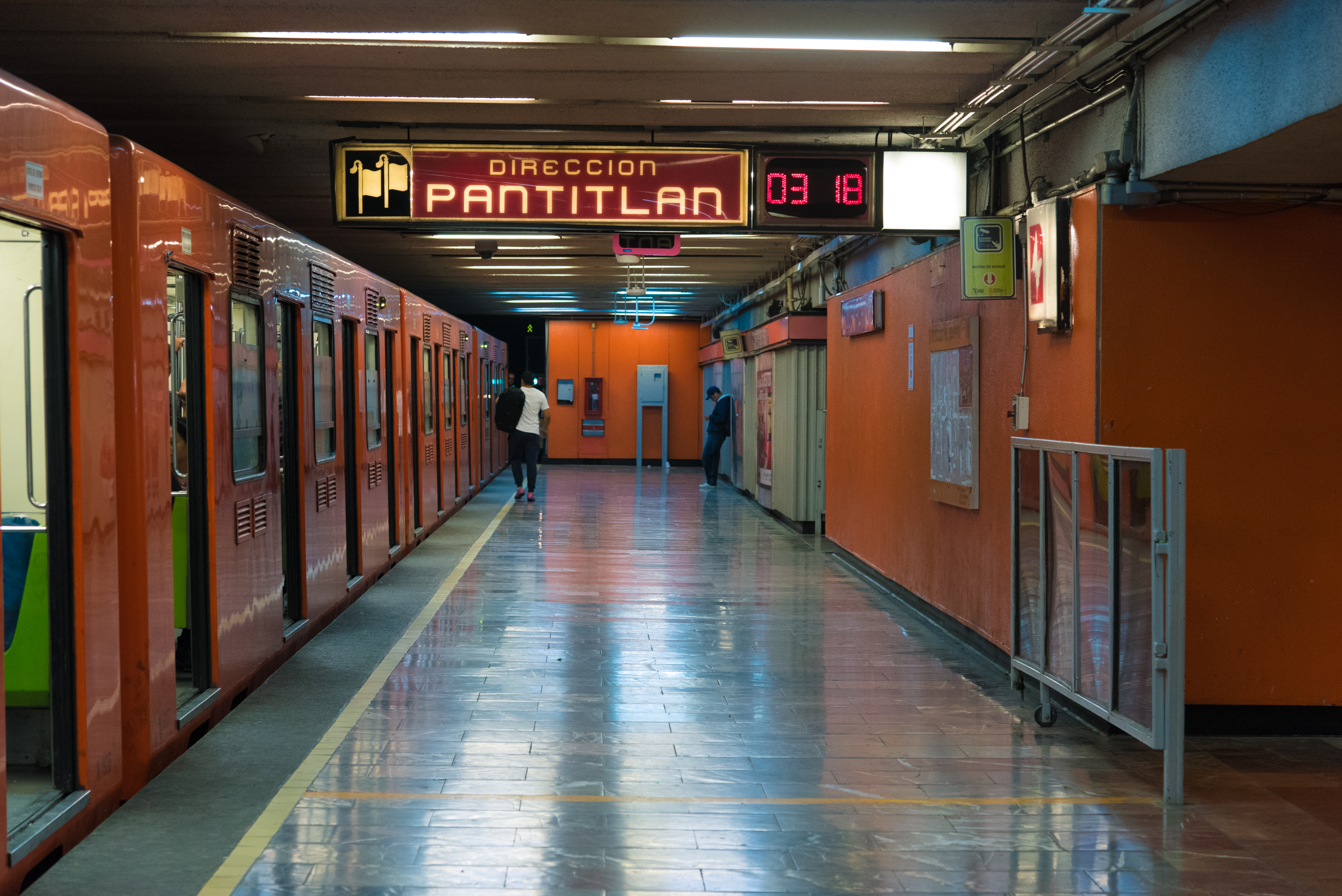 Platforms of the Juanacatlán metro station in Mexico City, September 2018